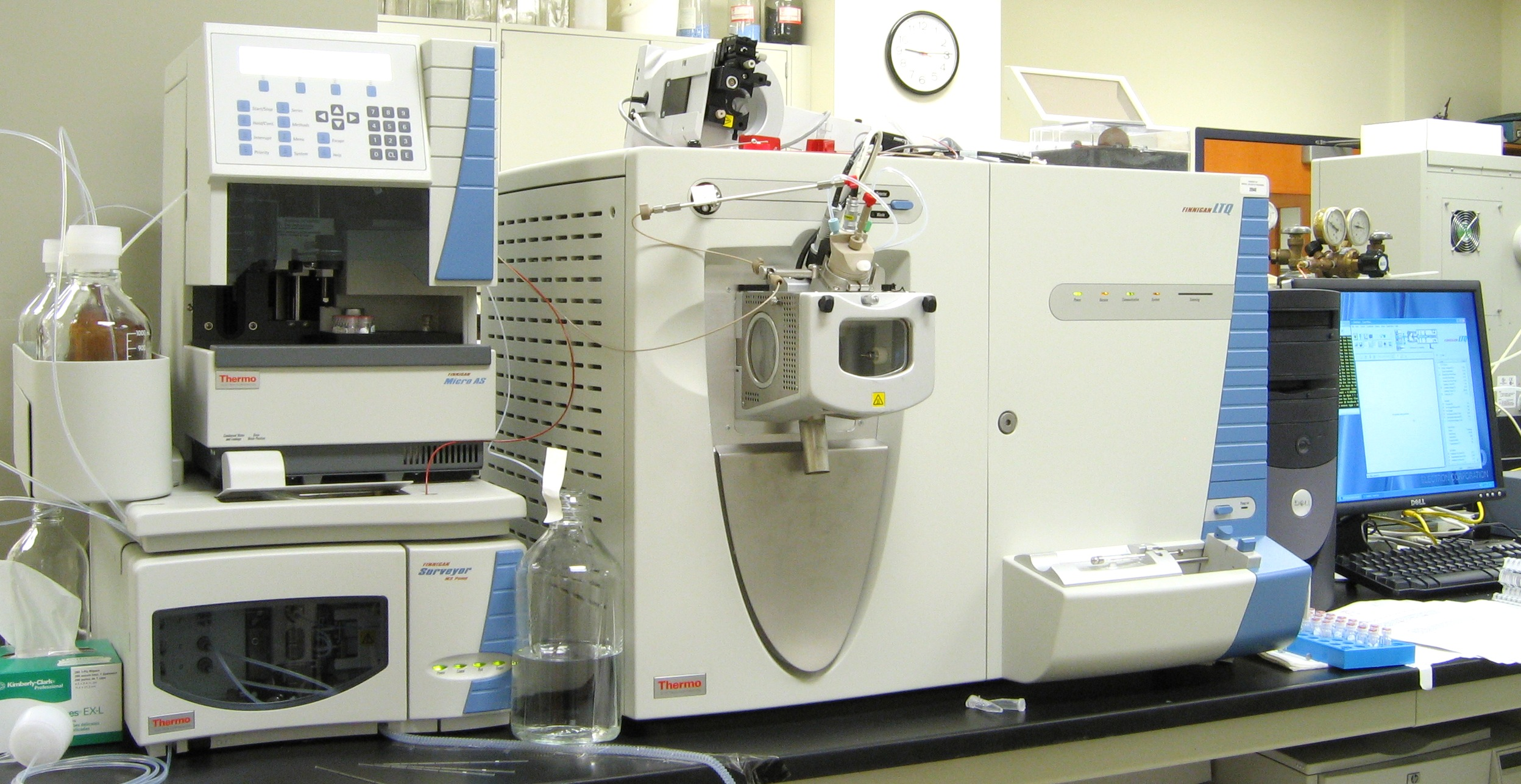 Thermo LC (Liquid Chromatograph) + LTQ (Linear Trap Quadrupole)